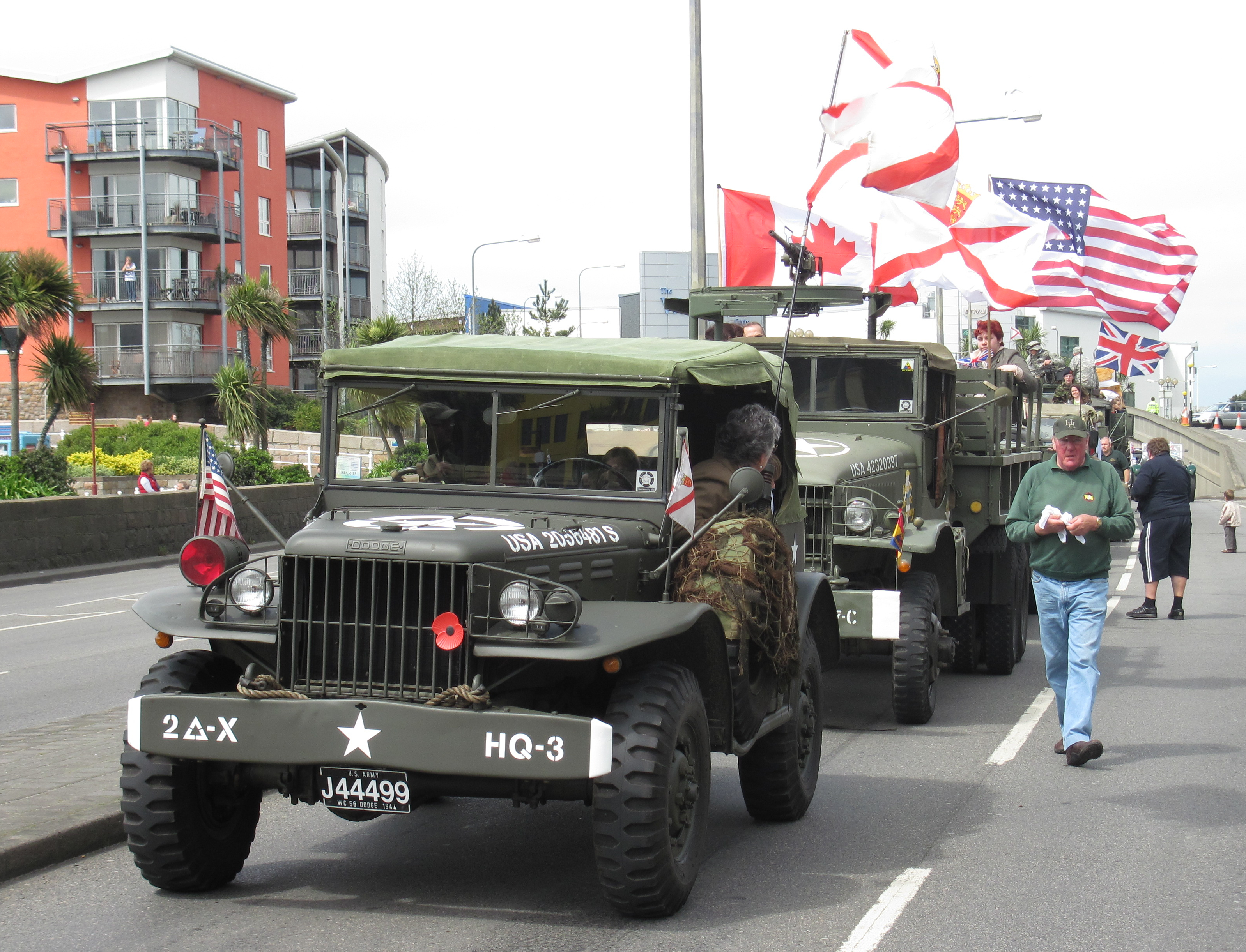 Liberation Day celebrations in Jersey 2012